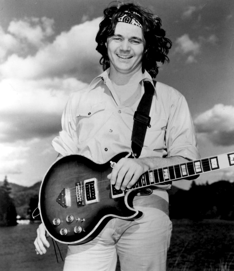 Photo of musician Steve Miller.